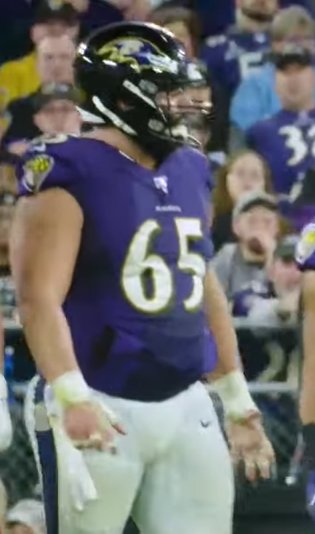 Patrick Mekari in 2020. Image from video Kenny Vaccaro Mic'd Up vs. Ravens (AFC Divisional Round) | Tennessee Titans, ~ 01:54.